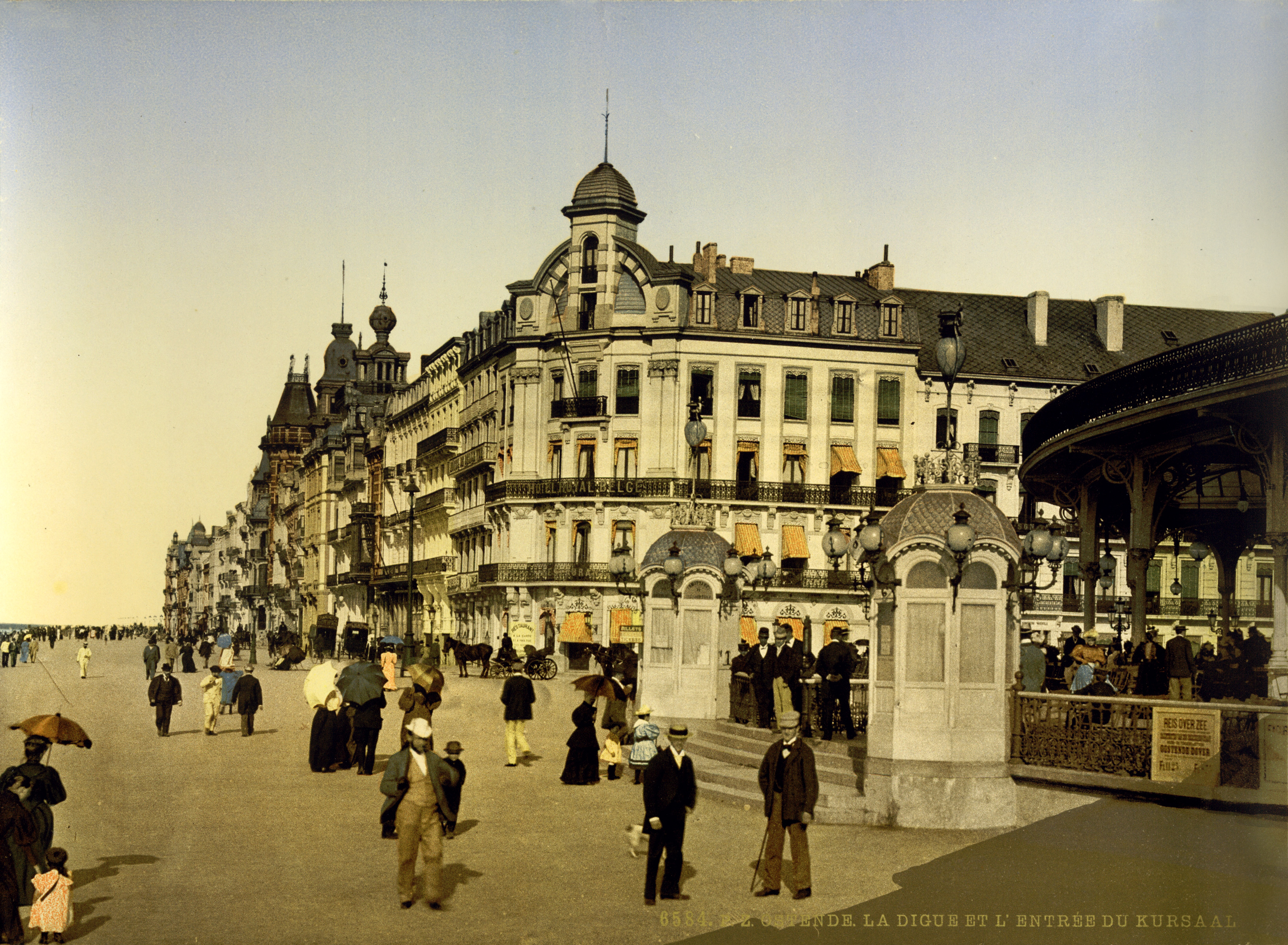 Embankment and entrance to the Kursaal (ca. 1895), Oostende, Belgium Thanks to ggaabboo for the pointer, From the Detroit Publishing Co. Collection at the U.S. Library of Congress. More postcards from Belgium - More photochrom postcards [PD] This picture is in the public domain.